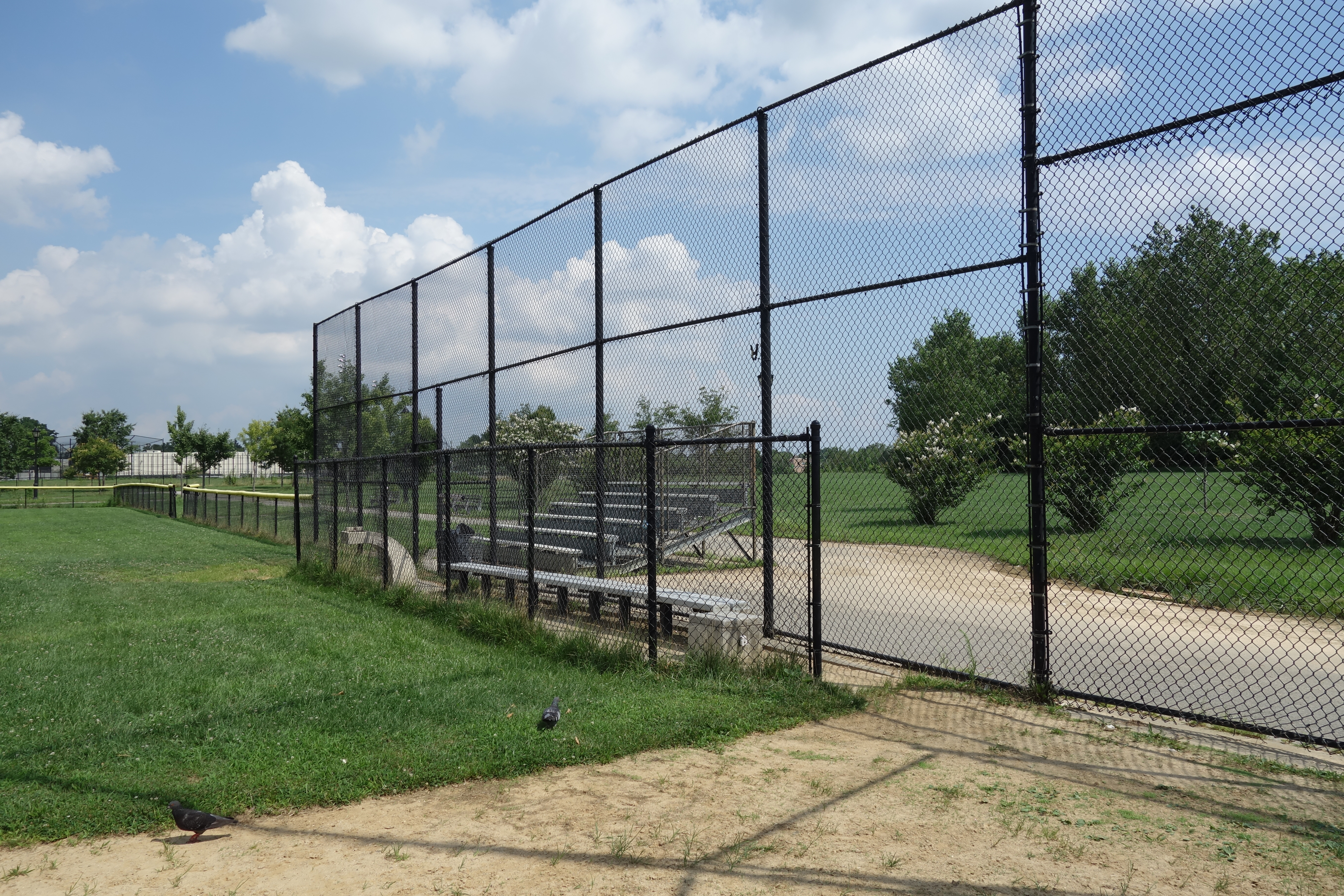 Inside Baseball Field 1 in the southern section of the College Point Fields, a.k.a. the College Point Sports Complex, near the former Flushing Airport on the east side of Ulmer Street north of 26th Avenue in College Point, Queens. A Little League / softball-sized field, it and Field 2 date back to the 2004 reconstruction of the complex. It seems to be the most upscale field in the park, with proper dugouts, and a well-maintained dirt and grass infield.